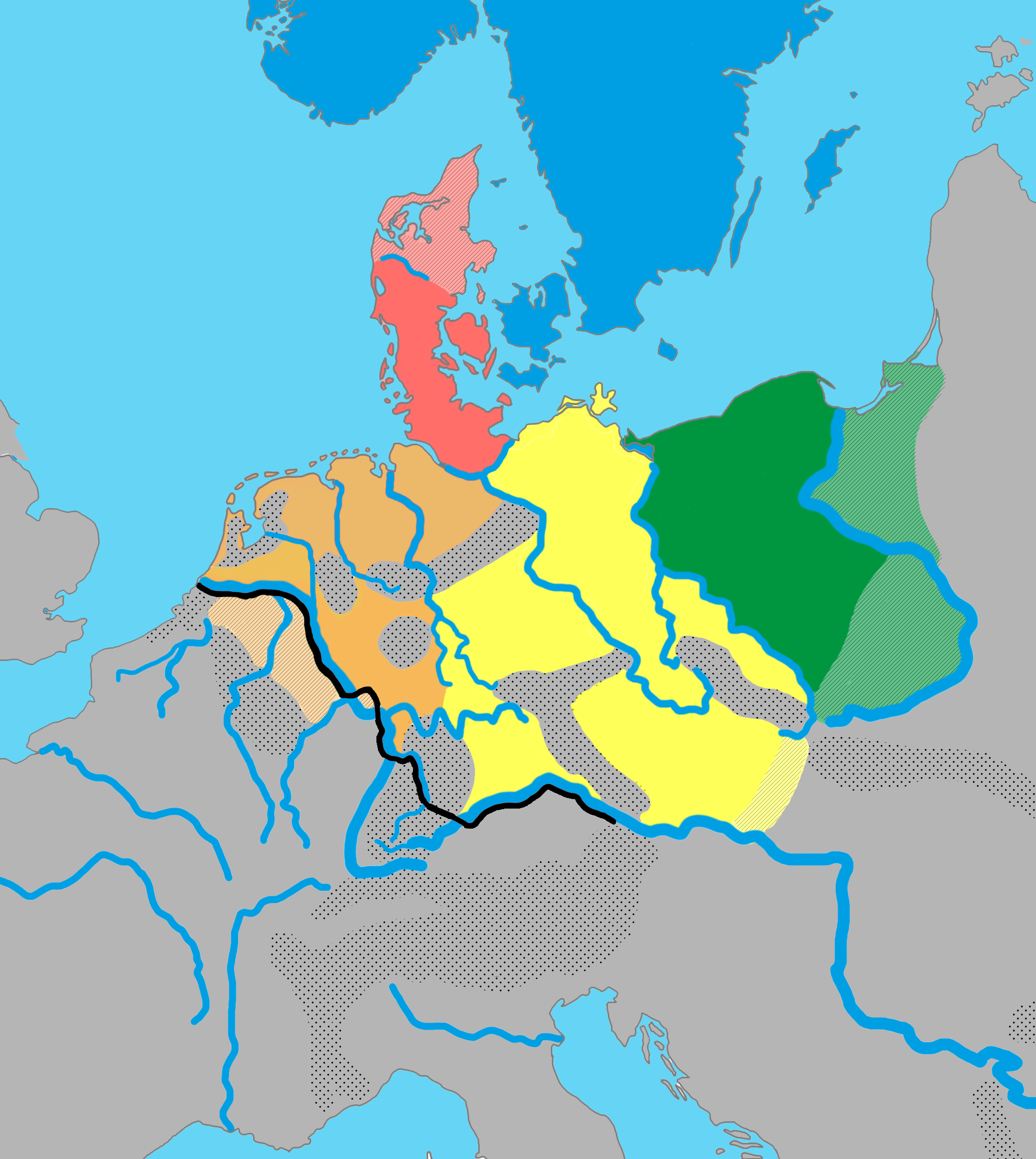 The distribution of the primary Germanic dialect groups in Europe in around AD 0-100: North Germanic North Sea Germanic (Ingvaeonic) Weser-Rhine Germanic, (Istvaeonic) Elbe Germanic (Irminonic) East Germanic Note 1: The coloured areas denote culturallinguistic areas which would, in the following centuries, diversify and grow apart. However, 1 - 100 CE, mutual intellegibility would have still been very great between all groupings. Note 2: The black line denotes the Roman border at the time of the Flavian dynasty. Spots indicate areas made uninhabitable or extremly sparsely populated during the time portrayed due to the presence of heavy forestation, moors/swamps and/or mountain ranges. Note 3: Lighter color striped areas denote either an area of mixed settlement (such as that between East-Germanic and the Balto-Slavic peoples) or possible settlement, such as that of the Istvaeones within the Roman Empire or the Ingvaenes in Northern Denmark.